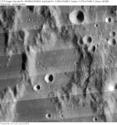 LO-IV-113H Palisa is the irregular feature in the center. On its southwest floor is 5-km Palisa P. Other IAU-named features visible in this view are 8-km Palisa D near the upper margin; 5-km Palisa A (the largest of the two craters on the northeast rim) and 4-km Palisa W (directly to its west – the largest of the craters along the right margin). The bottom of the frame is occupied by the northern part of 70-km diameter Davy Y, the lettered crater containing the famous Catena Davy.